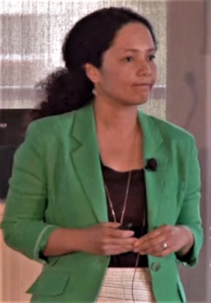 "Robust sensing technology for energy applications" Debbie Senesky, assistant professor of aeronautics & astronautics Moderator: Fritz Prinz, professor of materials science & engineering and of mechanical engineering | Stanford Energy 3.0 - May 14, 2015